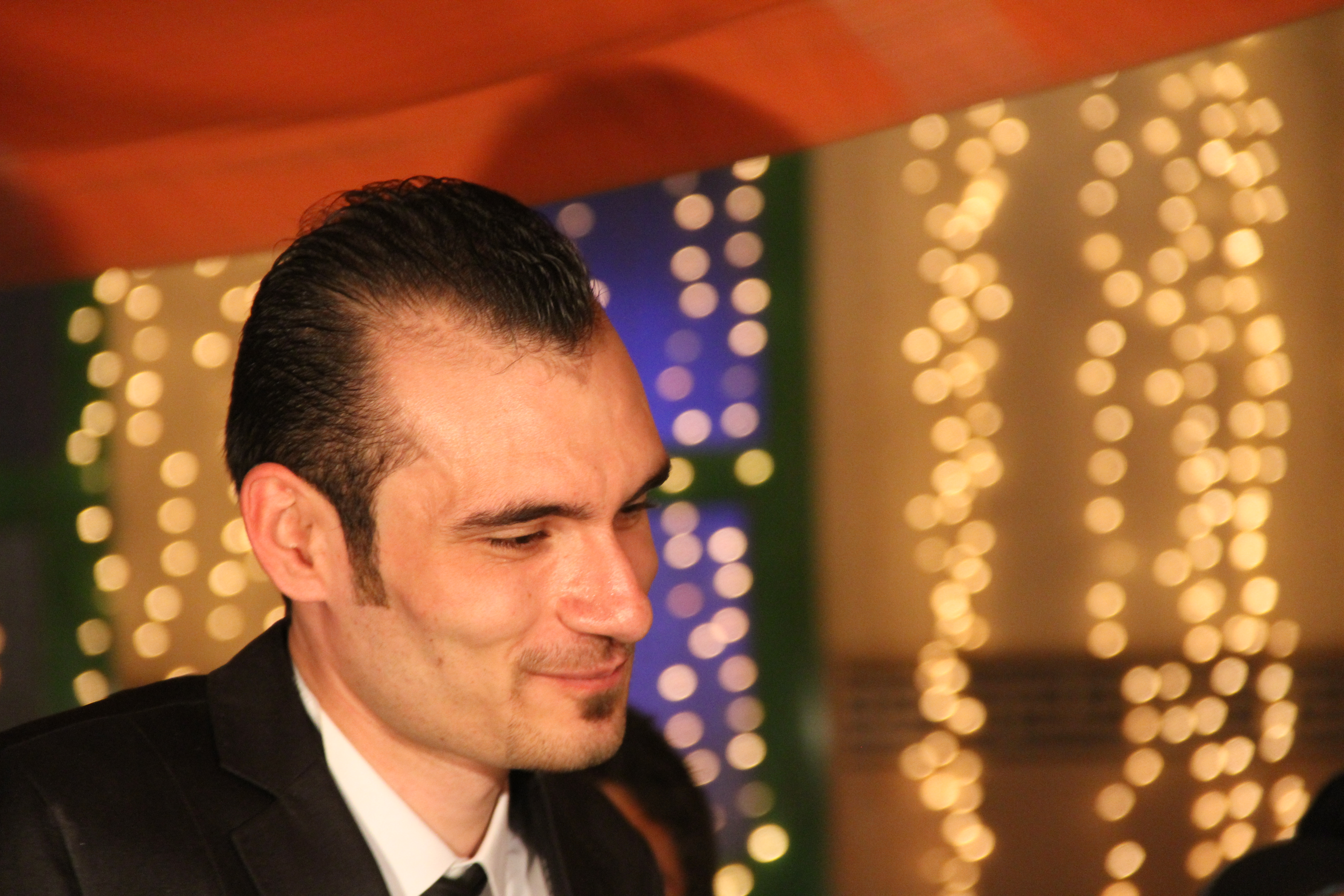 Amr Ali (ca. 1988) is a leading member of the April 6 Youth Movementand a prominent Egyptian political activist. Amr Ali was responsible for the April 6 movement's public works and community operations from September 2009 to August 2011, and was a member of the movement's political office from September 2011 until October 2013.[1] He is an information technology manager from cairo and currently works as information tecnology manager Tenth of Ramadan Investors Association .[1]